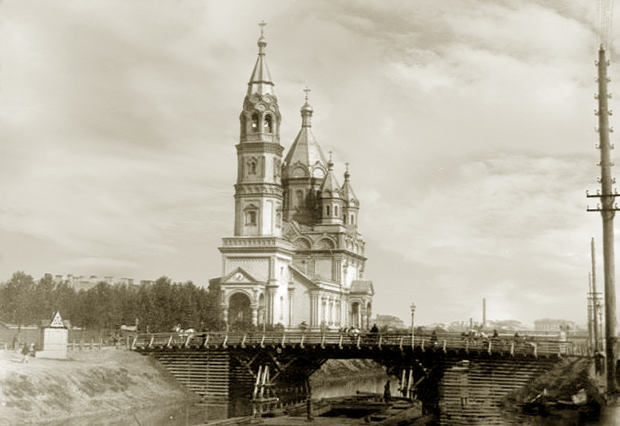 Foreground Ruzovsky Bridge over the Obvodny canal; background: Church to the Saint martyr Miron (built 1849-1855, 1943 pulled down) on the bank of the Obvodny canal, regiment´s church of the His Majesty Lifeguard Jaeger Regiment to Saint Petersburg, Russia about 1900.